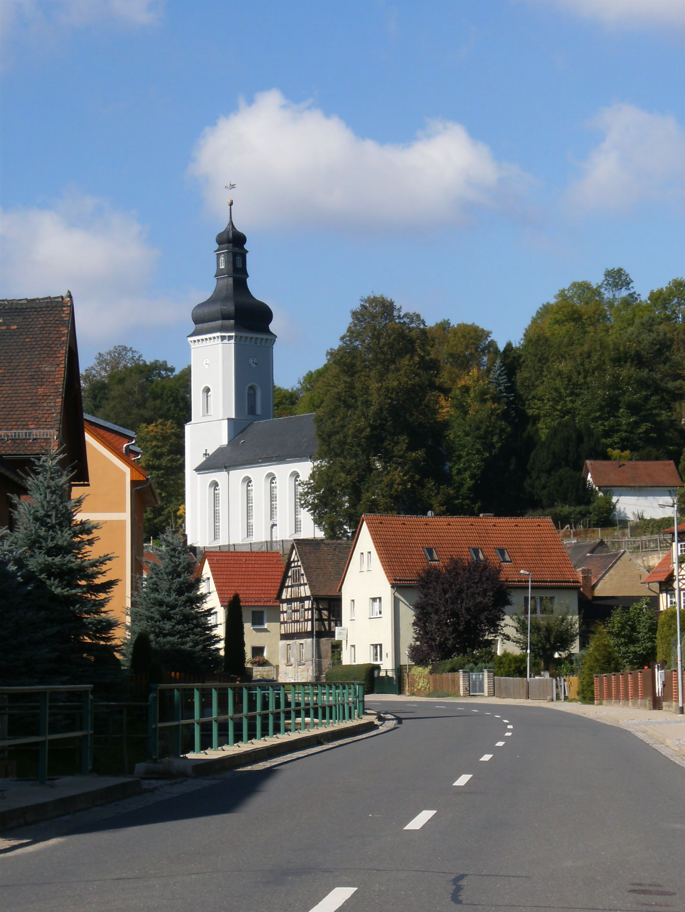 Kraftsdorf in Landkreis Greiz, Thuringia, village view.